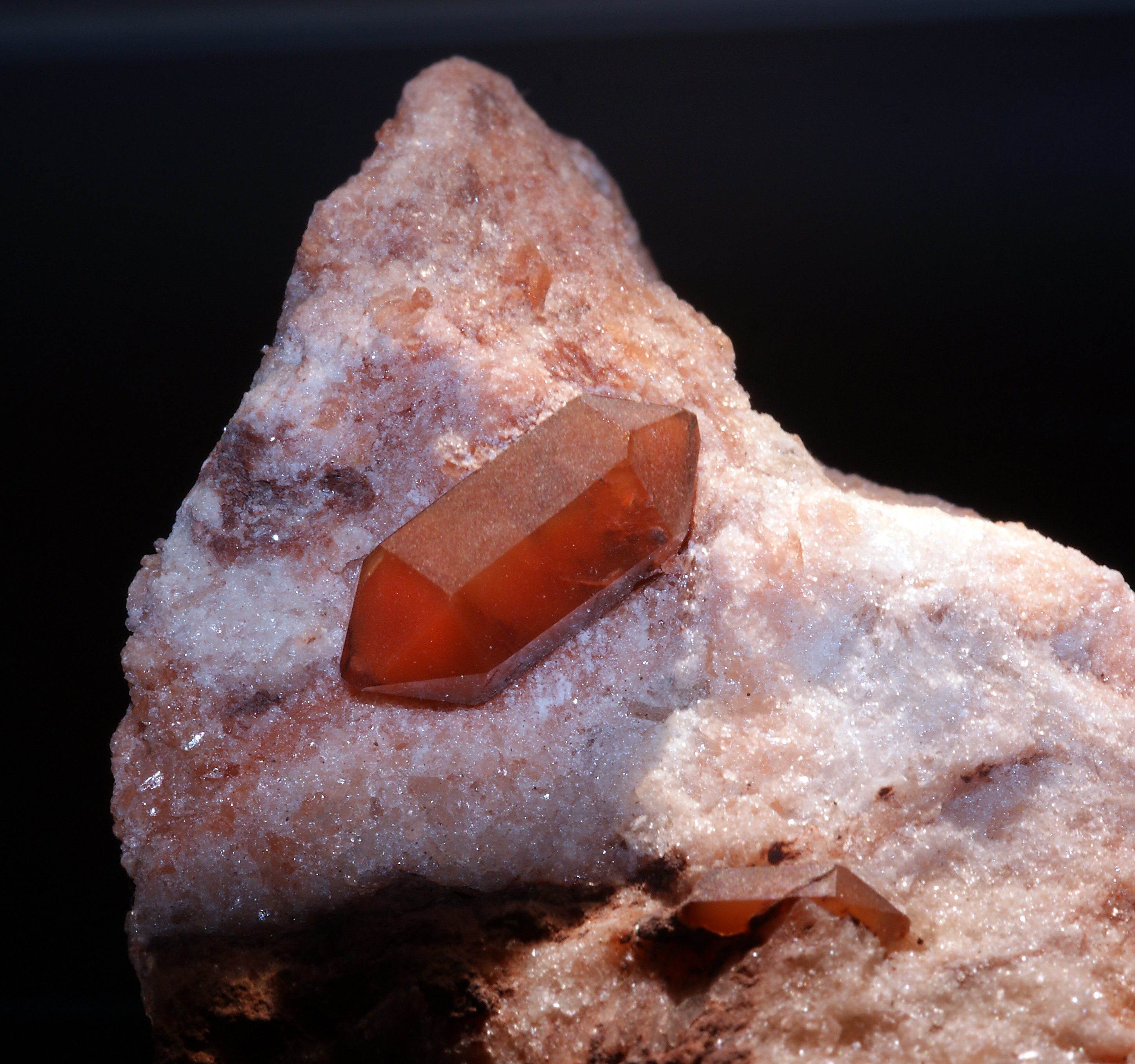 Quartz Jacinto de Compostela Locality: Provincia de Guadalajara - Spain Size xx1, 6x0.6cm